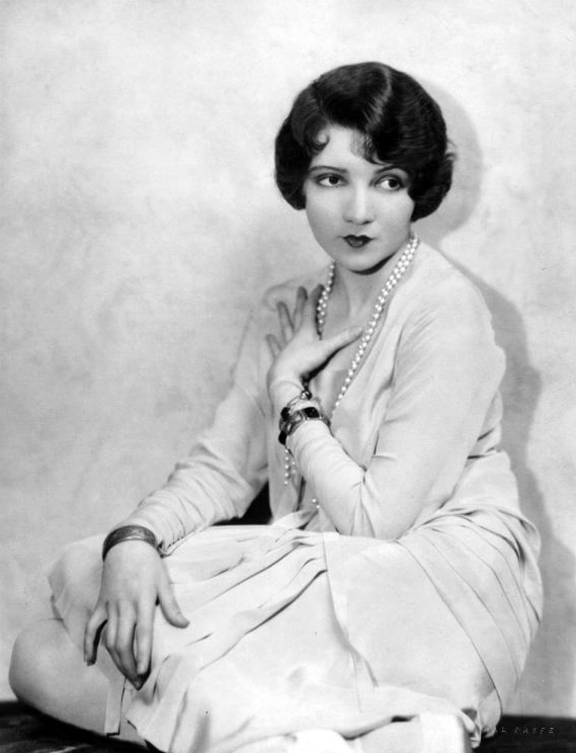 Promotional photograph of Claudette Colbert for the Broadway production La Gringa